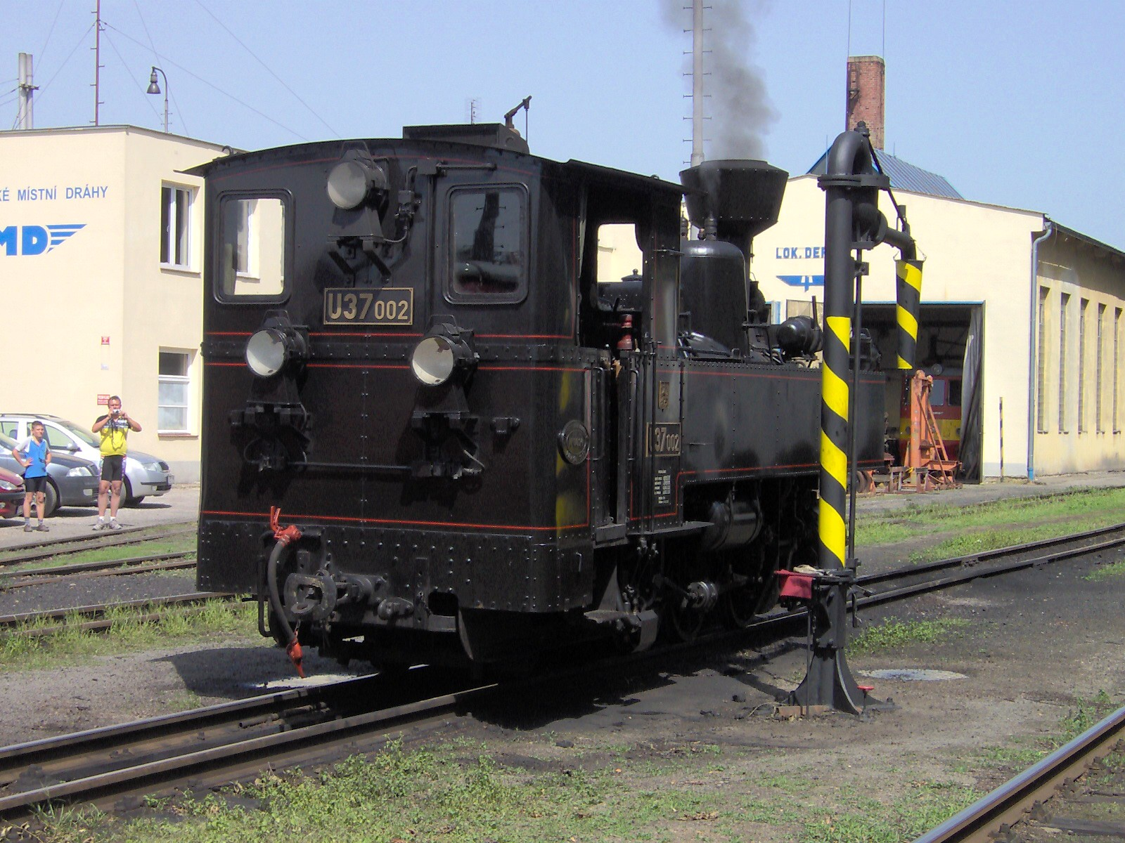 Narrow gauge steam locomotive U 37.002, Jindřichův Hradec, Czech Republic